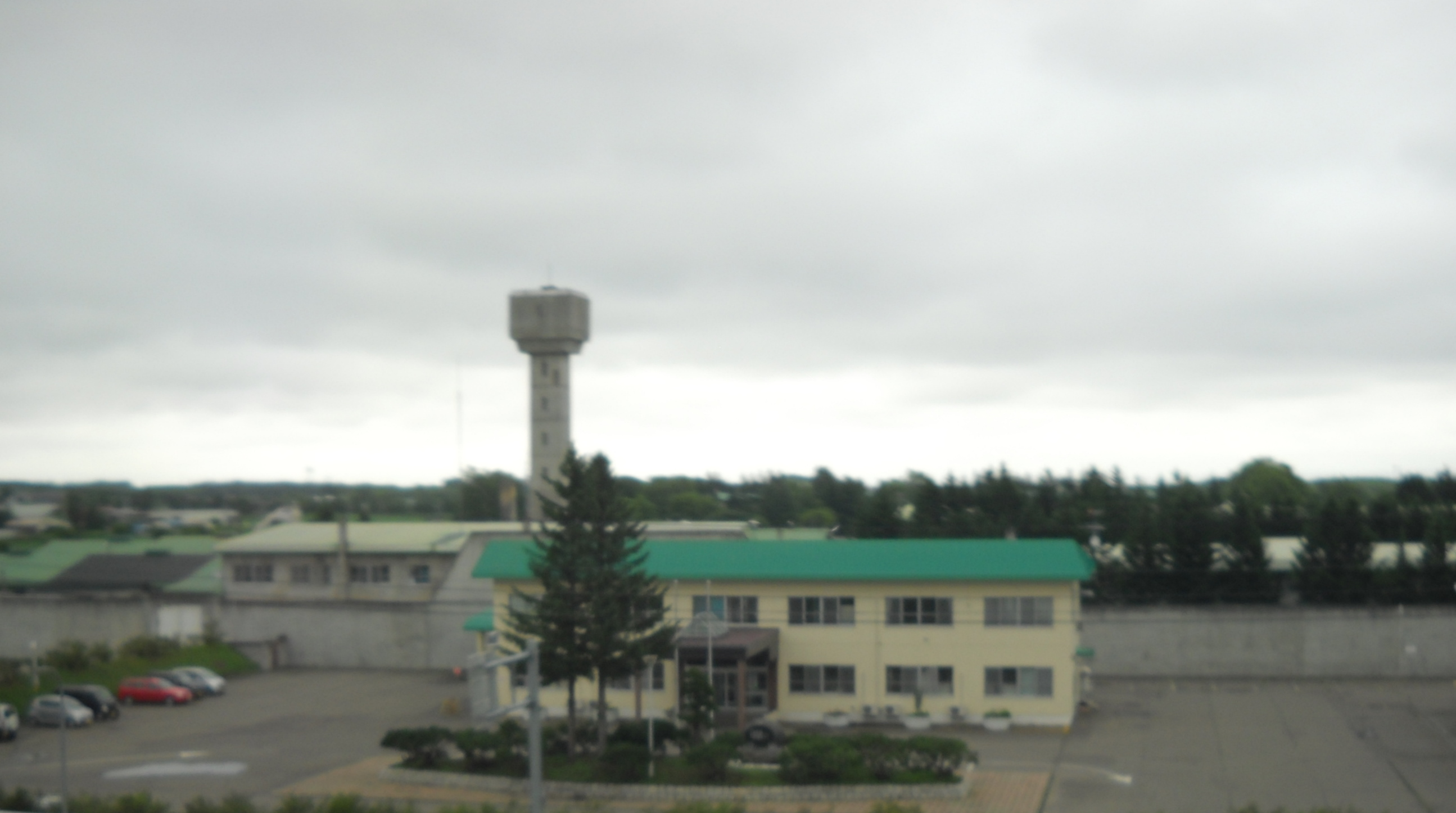 Obihiro Prison, Obihiro city, Hokkaido, Japan.